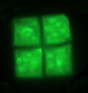 Drawing of Haloquadratum walsbyi